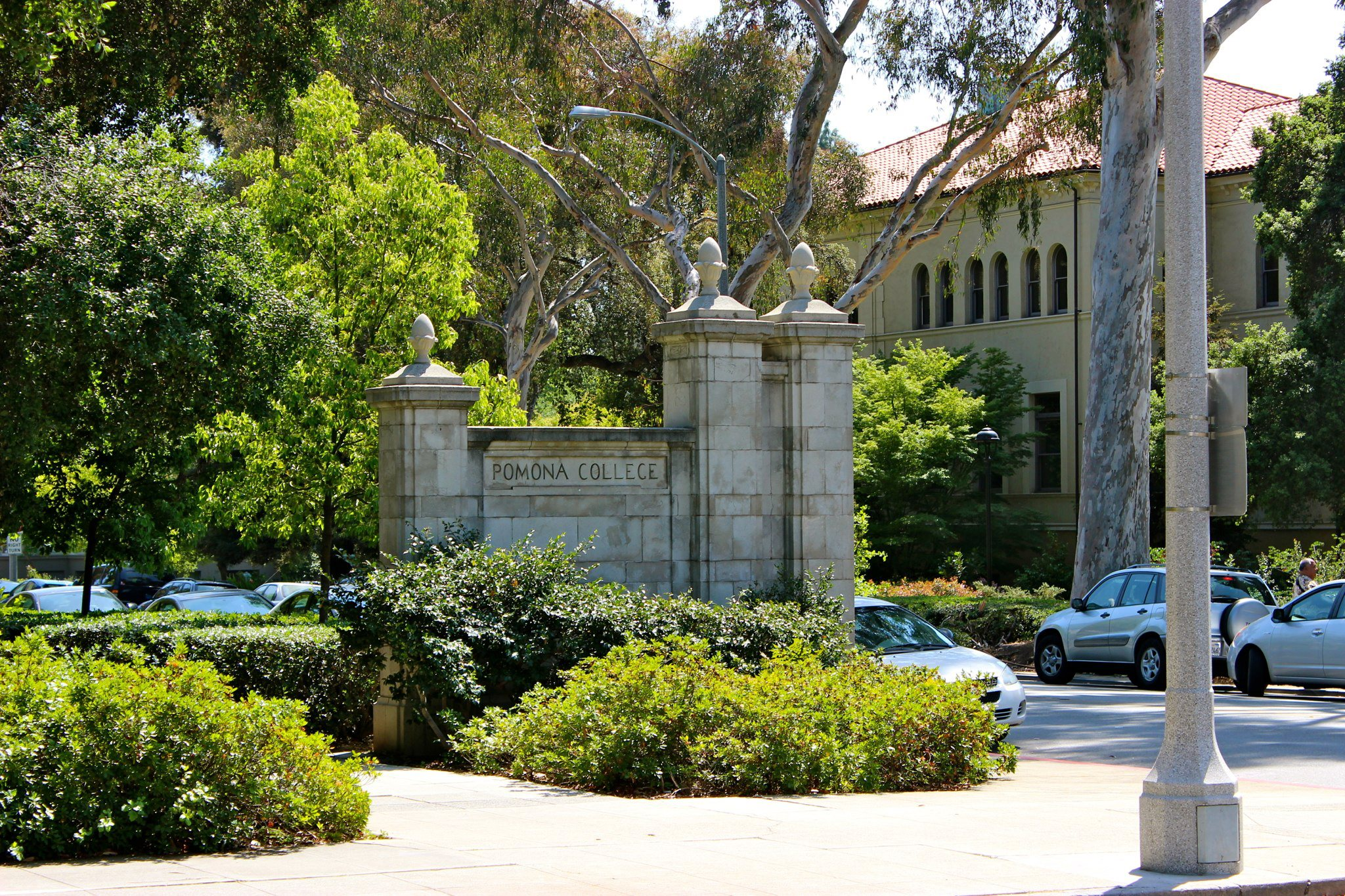 The gates of Pomona College, with Pearsons Hall in the background